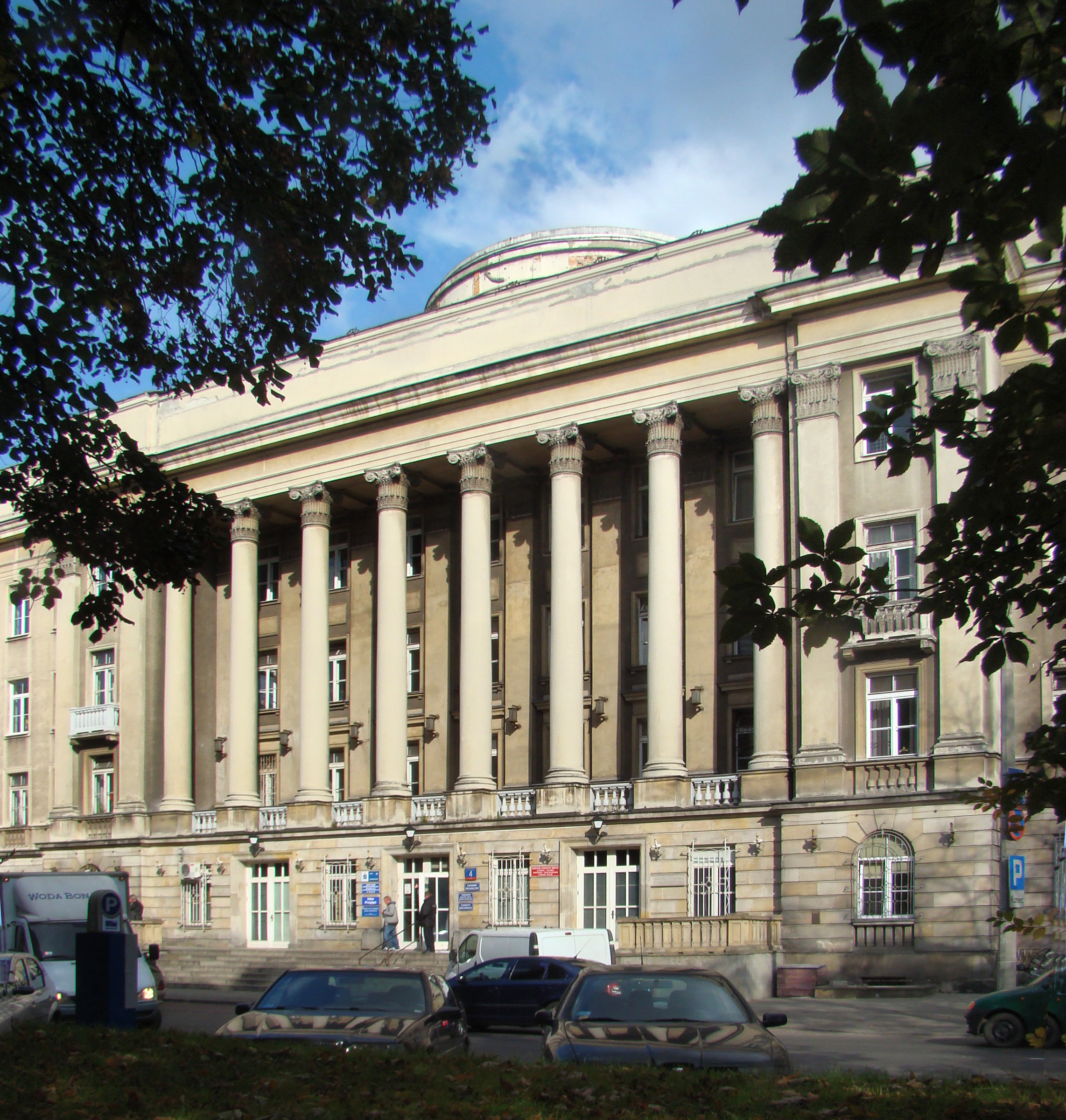 Clinical Hospital Warsaw